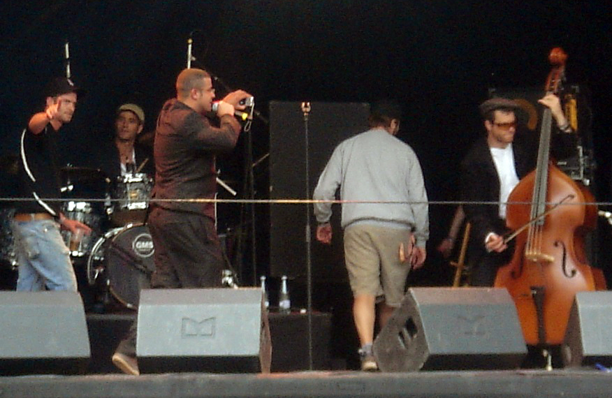 Baze unplugged feat. Secondo am Gurtner Open-Air